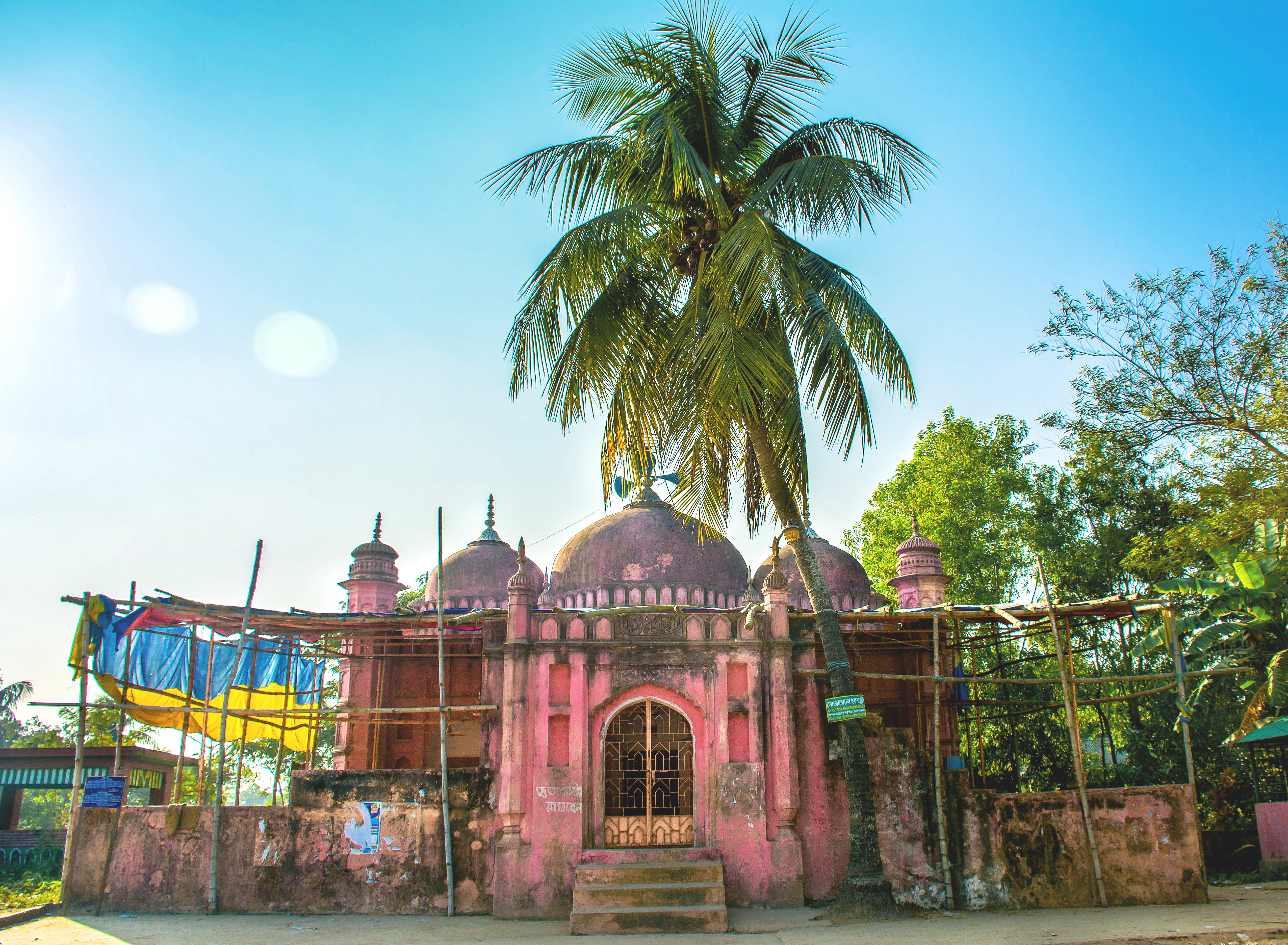 Ulchapara Mosque